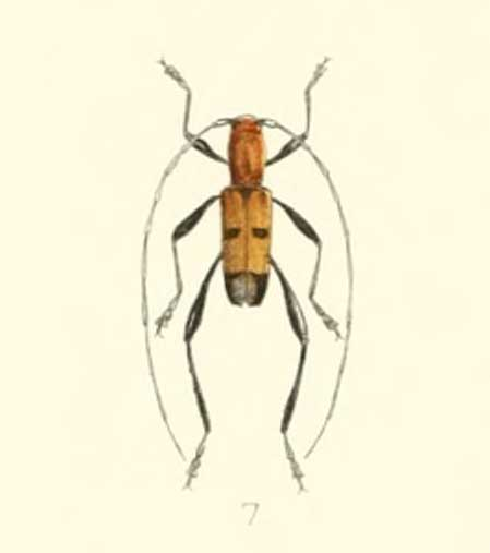 « Aridaeus timoriensis » = Aridaeus timoriensis